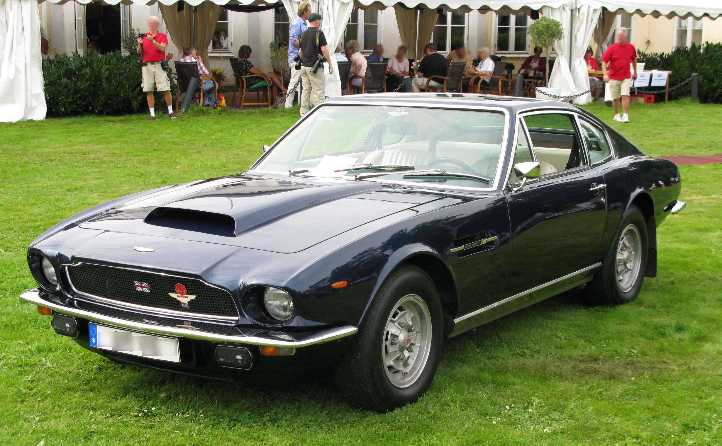 1973 Aston Martin V8.Event: Sportbilsdagen i Västervik 2012.